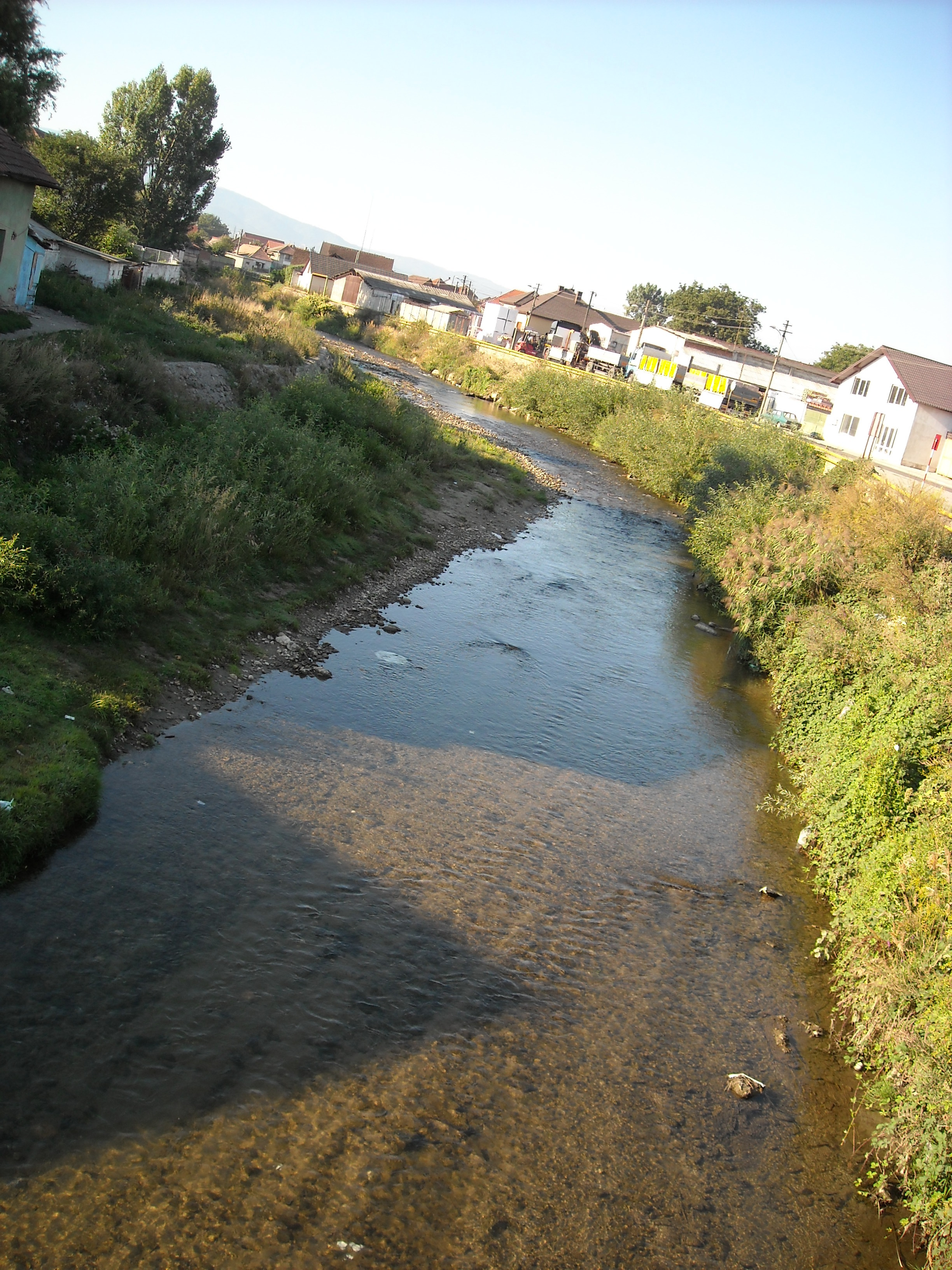 The Orăştie River